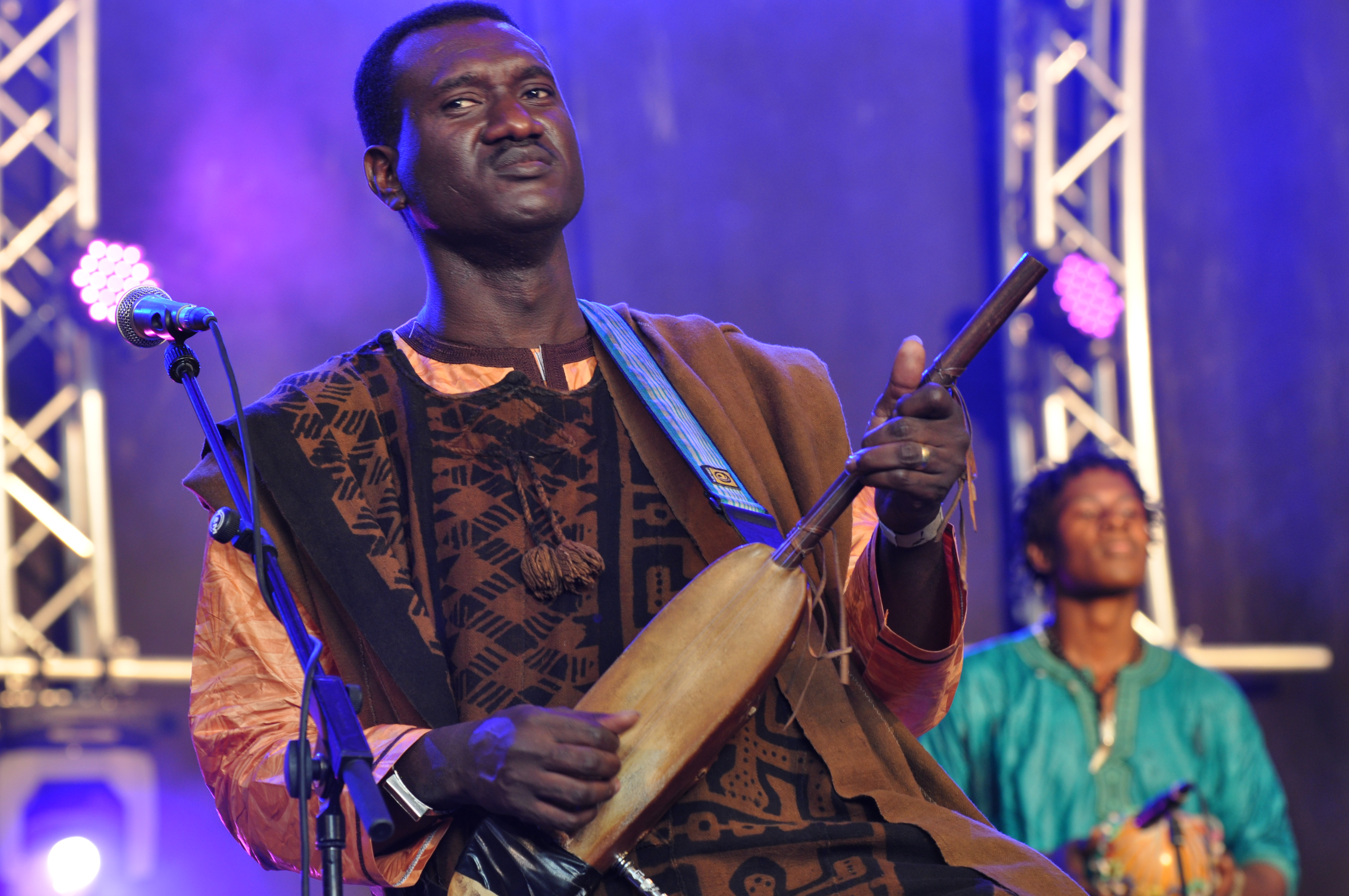 Bassekou Koyaté & Ngoni Ba (ML), appearance at the 12th World Music Festival "Horizonte" 2014 at the fortress of Ehrenbreitstein, Koblenz (Germany)